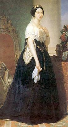 Adelaide Tosi-soprano